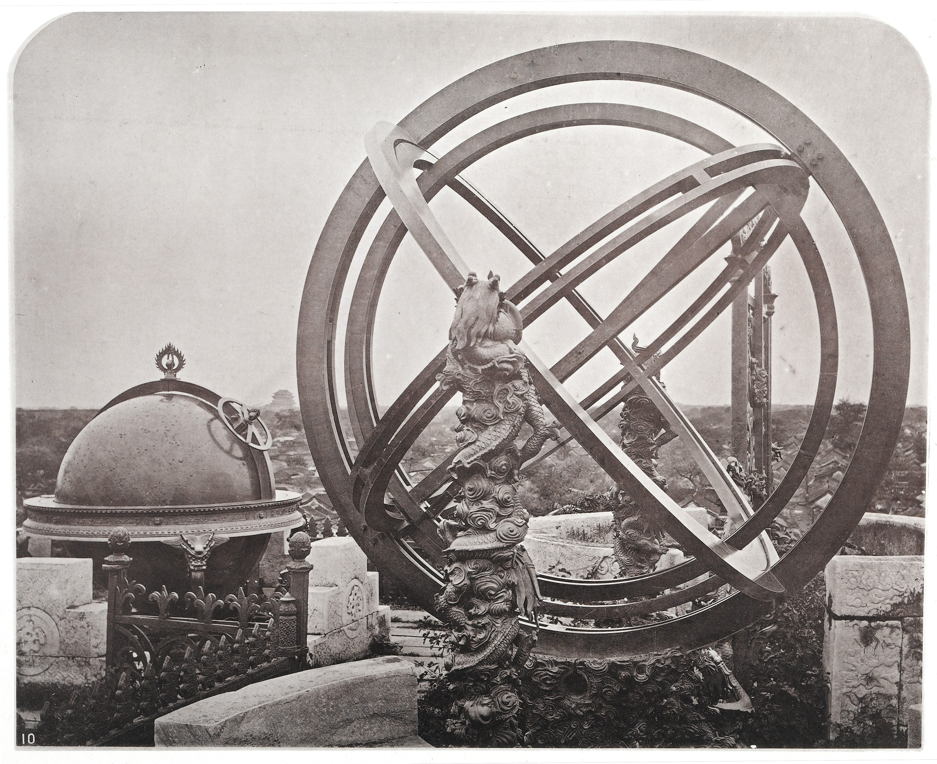 A Zodial Sphere and Celectial Globe, made by Jesuit priests from the original chinese models, Peking Observatory, Peking, Pechili province. General Collections Keywords: Observatory; Chinese; Asian Continental Ancestry Group; Instruments; Astronomical; John Thomson; Ferdinand Verbiest; China; Astronomy; Peking (Beijing)